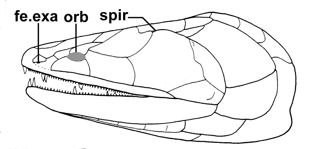 Skull and shoulder-girdle restorations. left lateral view of Cabonnichthys burnsi